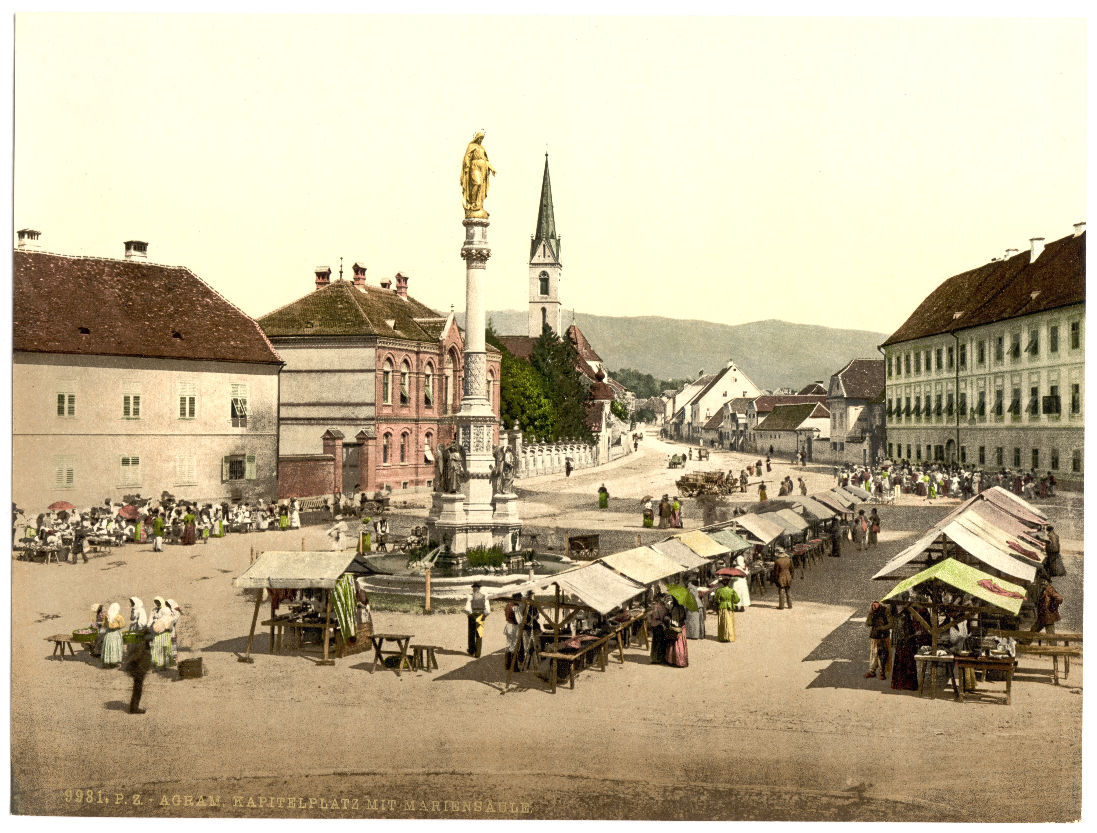 Print no. "9981".; Forms part of: Views of the Austro-Hungarian Empire in the Photochrom print collection.; Title from the Detroit Publishing Co., Catalogue J-foreign section, Detroit, Mich. : Detroit Publishing Company, 1905.